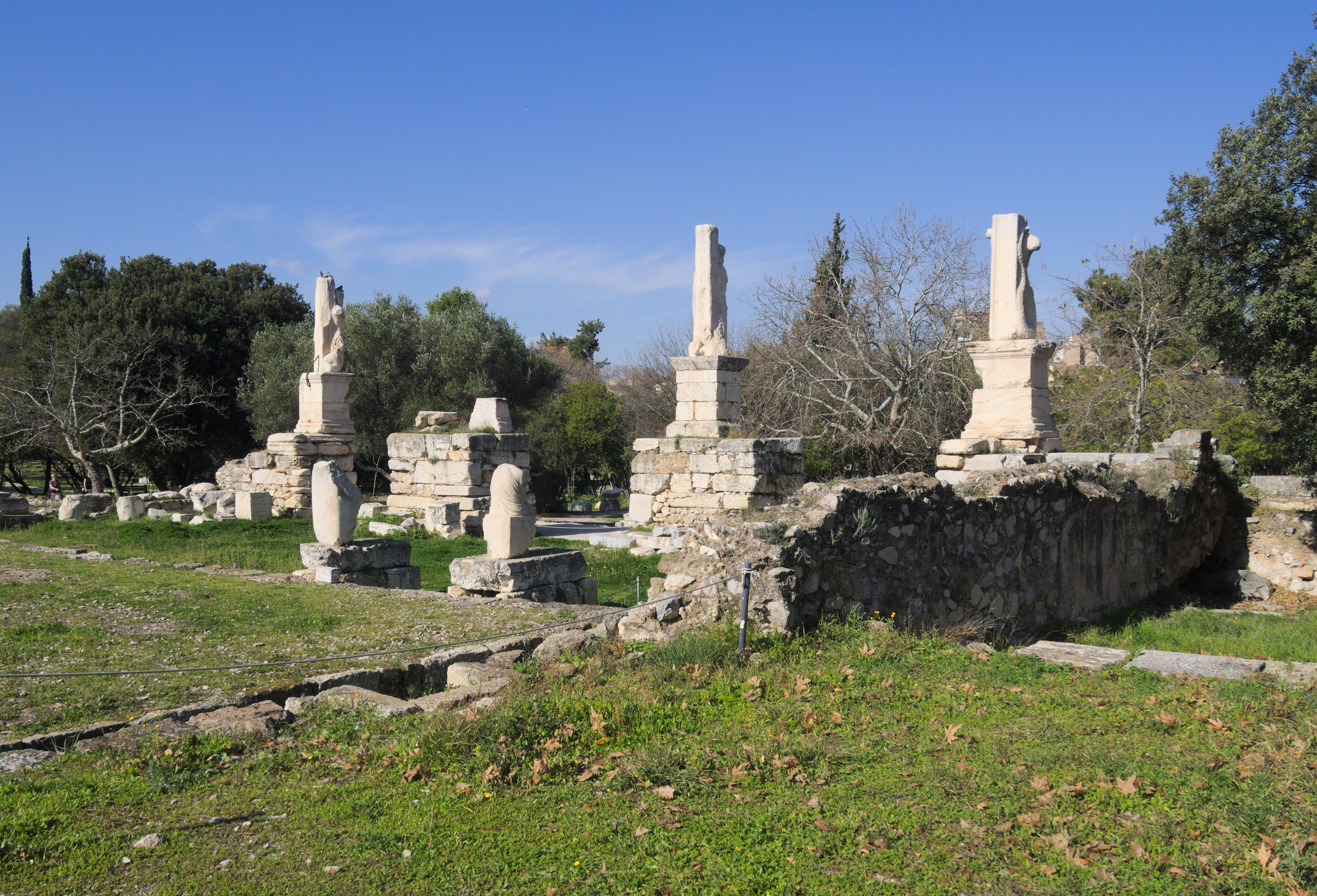 View of the pillars of the odeon of Agrippas, at the Ancient Agora of Athens.